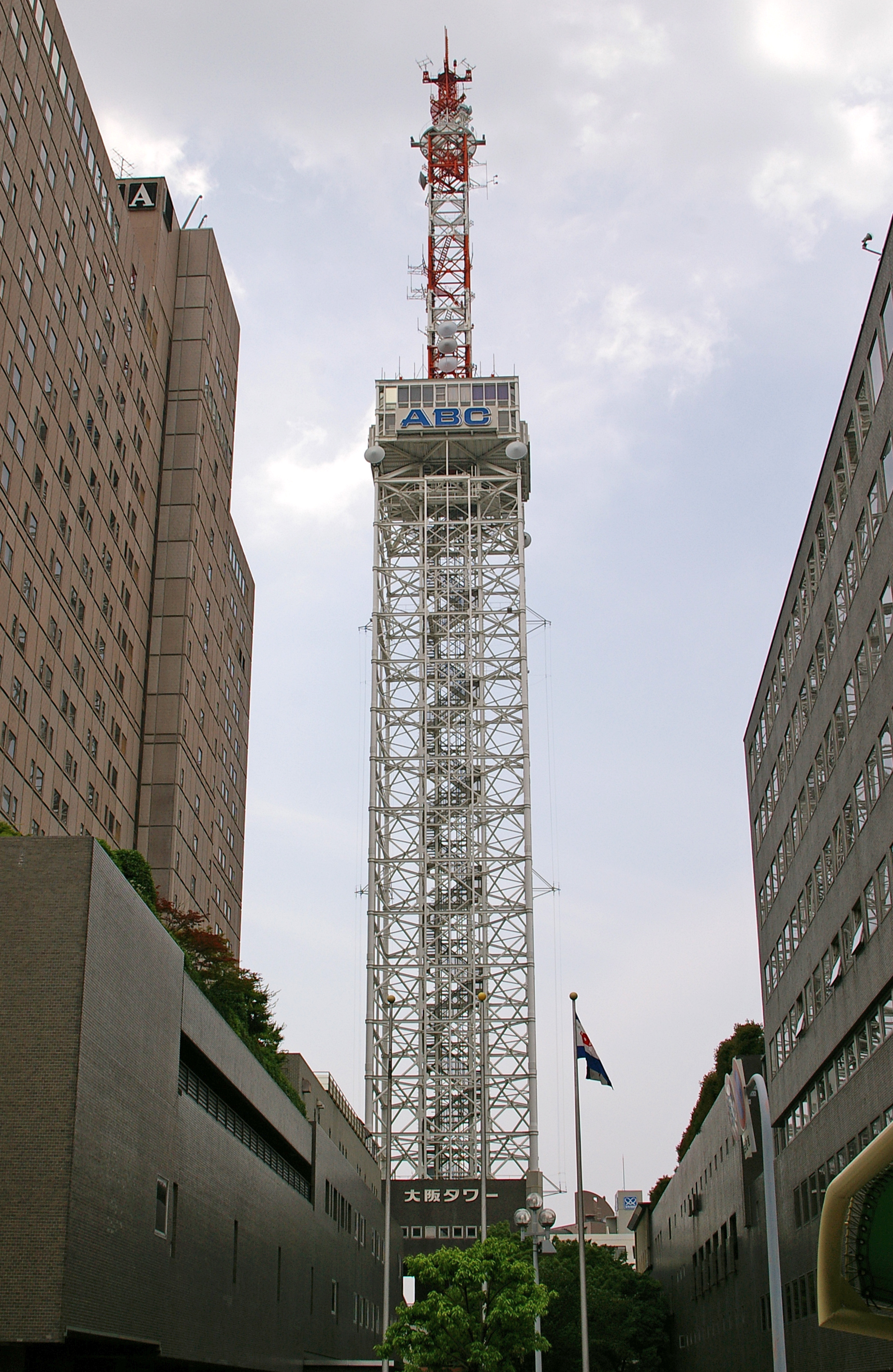 Photograph of Osaka Tower in Kita-ku, Osaka, Osaka Prefecture, Japan.